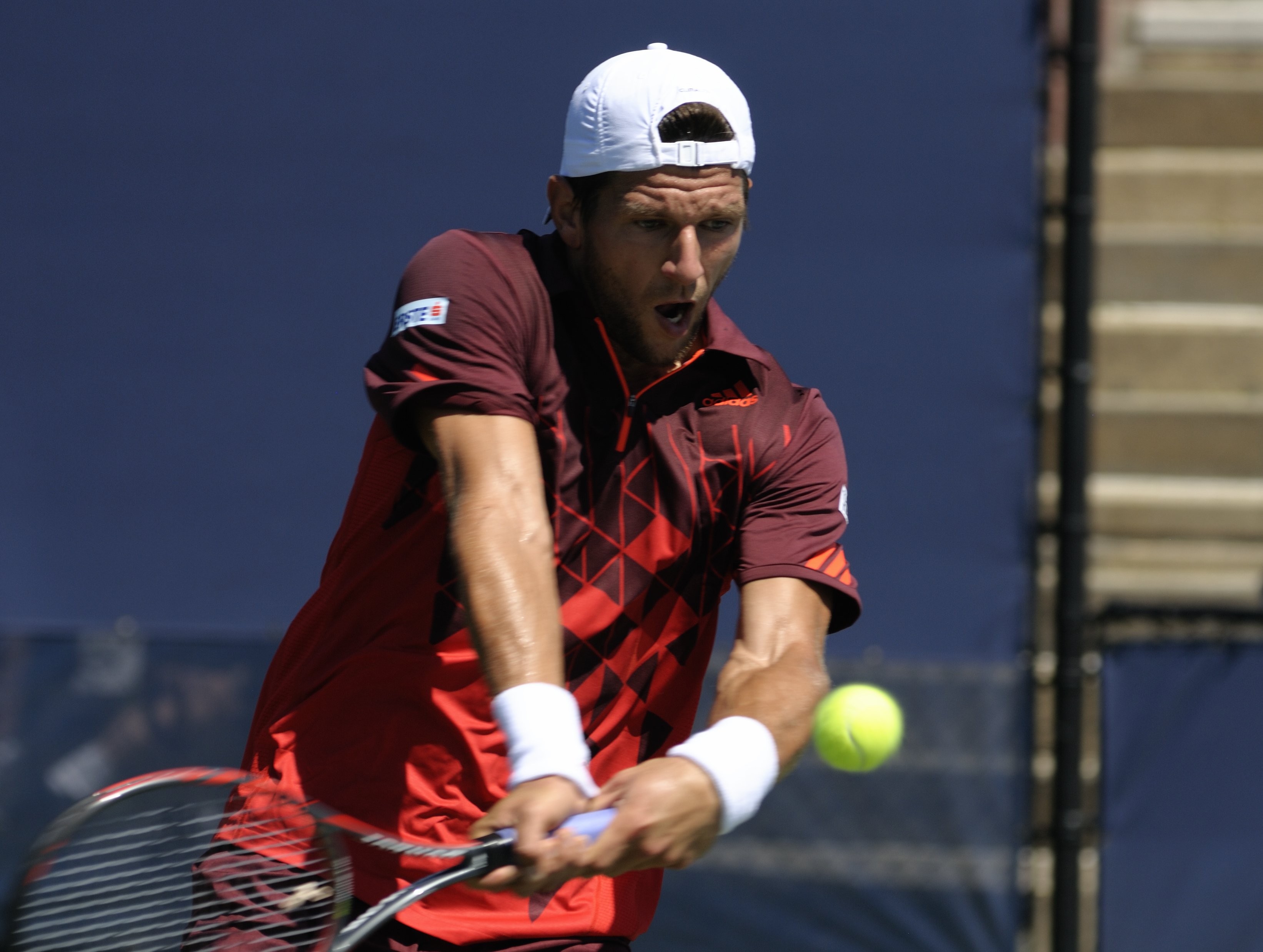 Melzer backhand at the 2011 USO